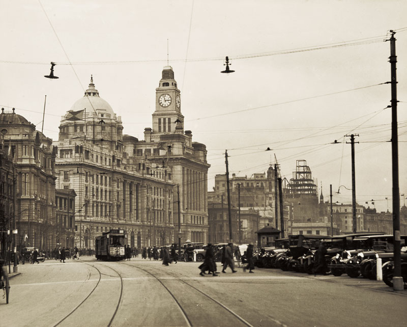 The Bund in 1928. Sasson House was still under construction.